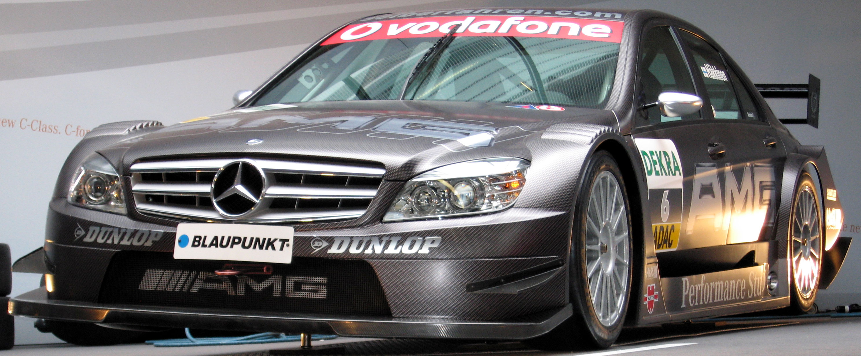 AMG-Mercedes C-Klasse 2007 of Mika Häkkinen at the IAA 2007